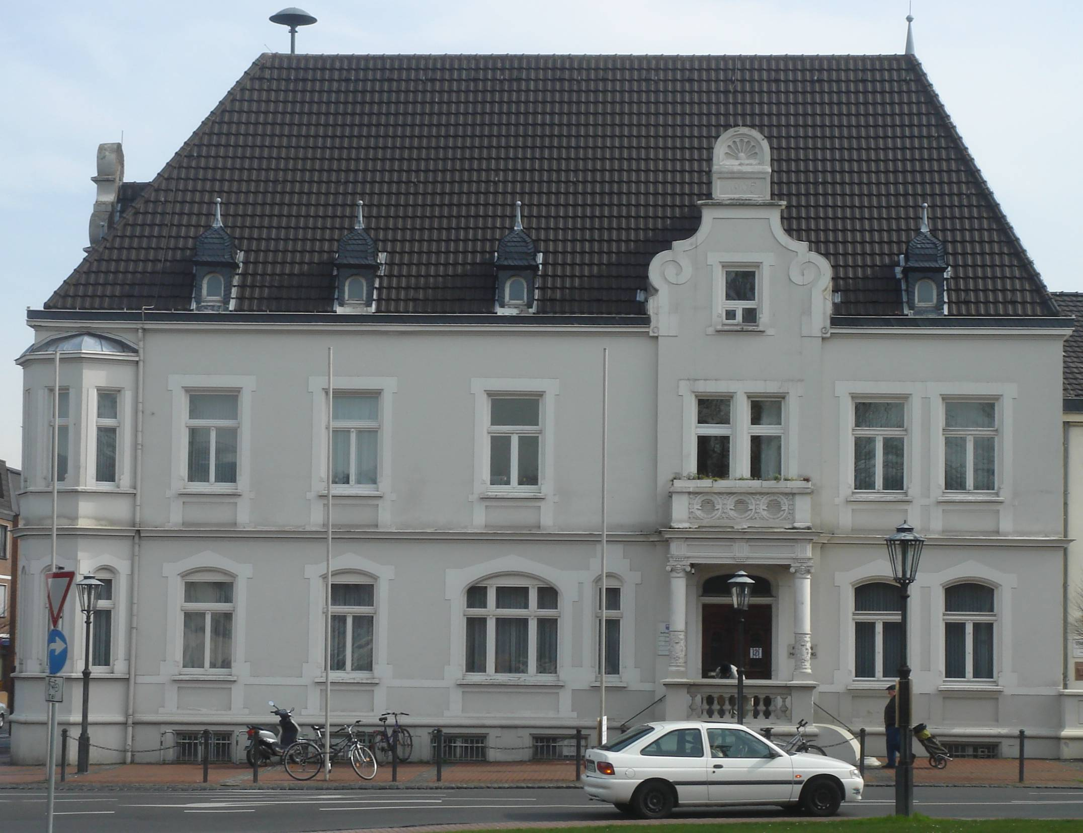 City hall of Bonns municipal district Hardtberg in Duisdorf.